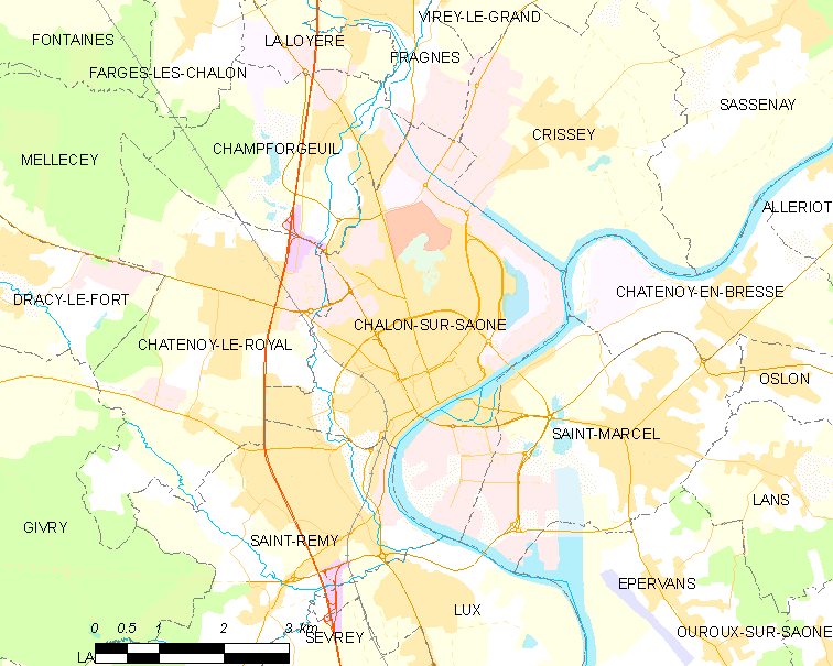 Map of French municipality